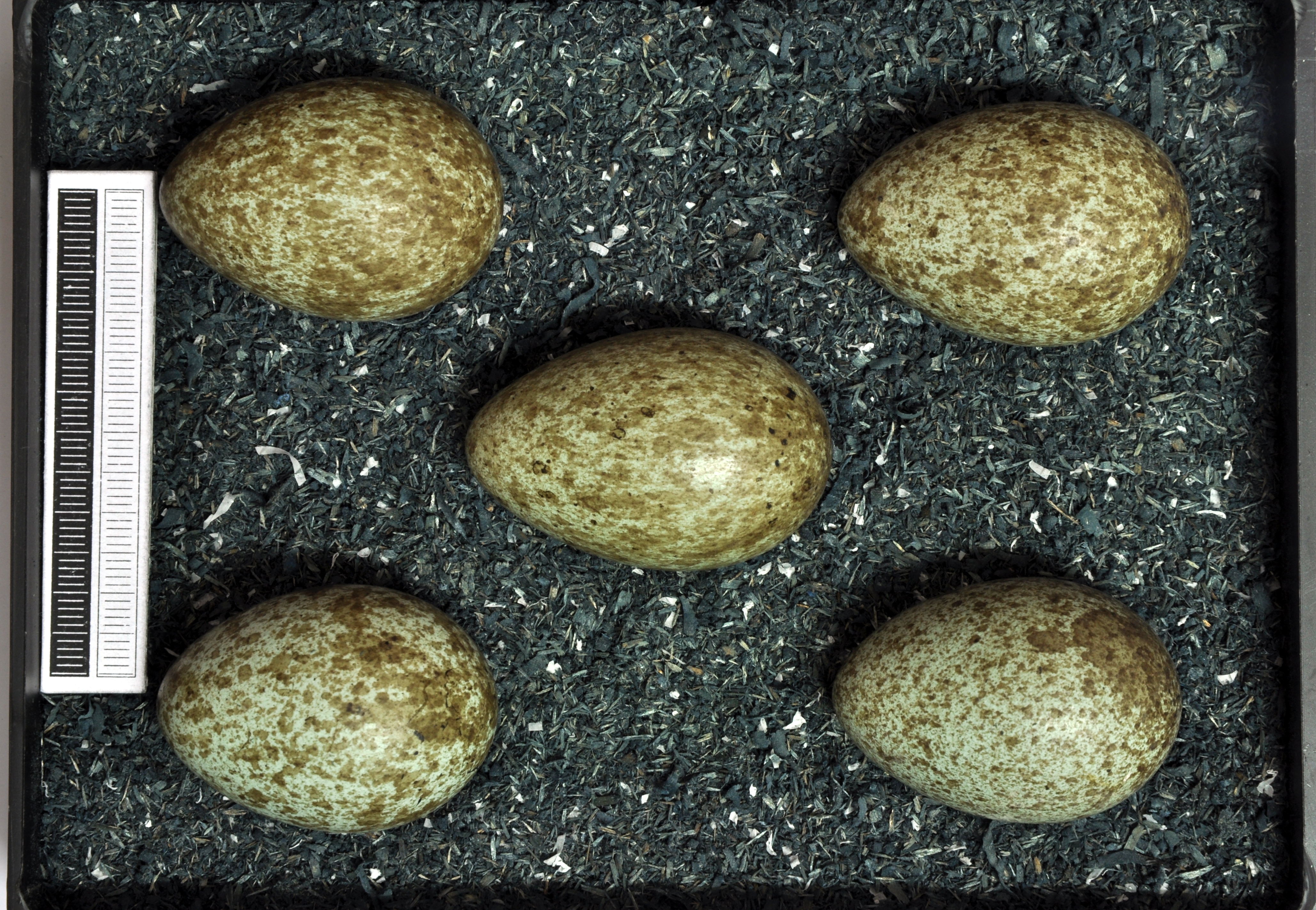 Carrion crow Corvus corone, egg, Coll. Museum Wiesbaden, Origin: Lake Neusiedl, Austria, 15.04.1973, leg. W. Abelmann